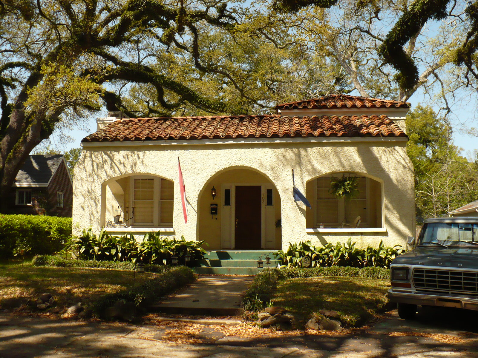 103 Florence Place in Mobile, Alabama. An example of Spanish Colonial Revival architecture of the Central Gulf Coast of the United States. Individually listed on the National Register of Historic Places.